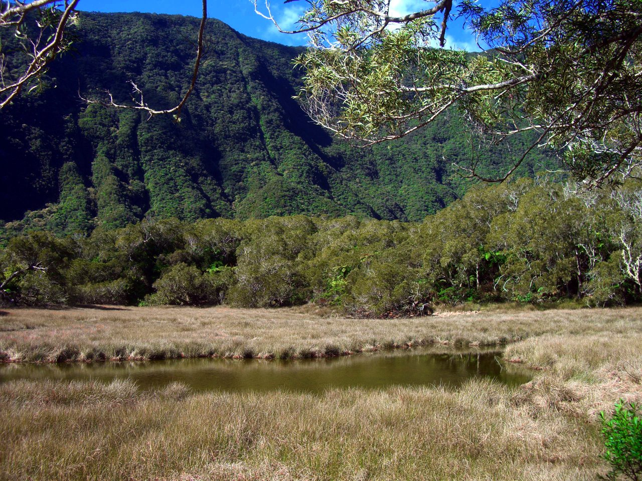 La Grande Mare (The great pool), forêt de Belouve (Belouve forest) Reunion Island